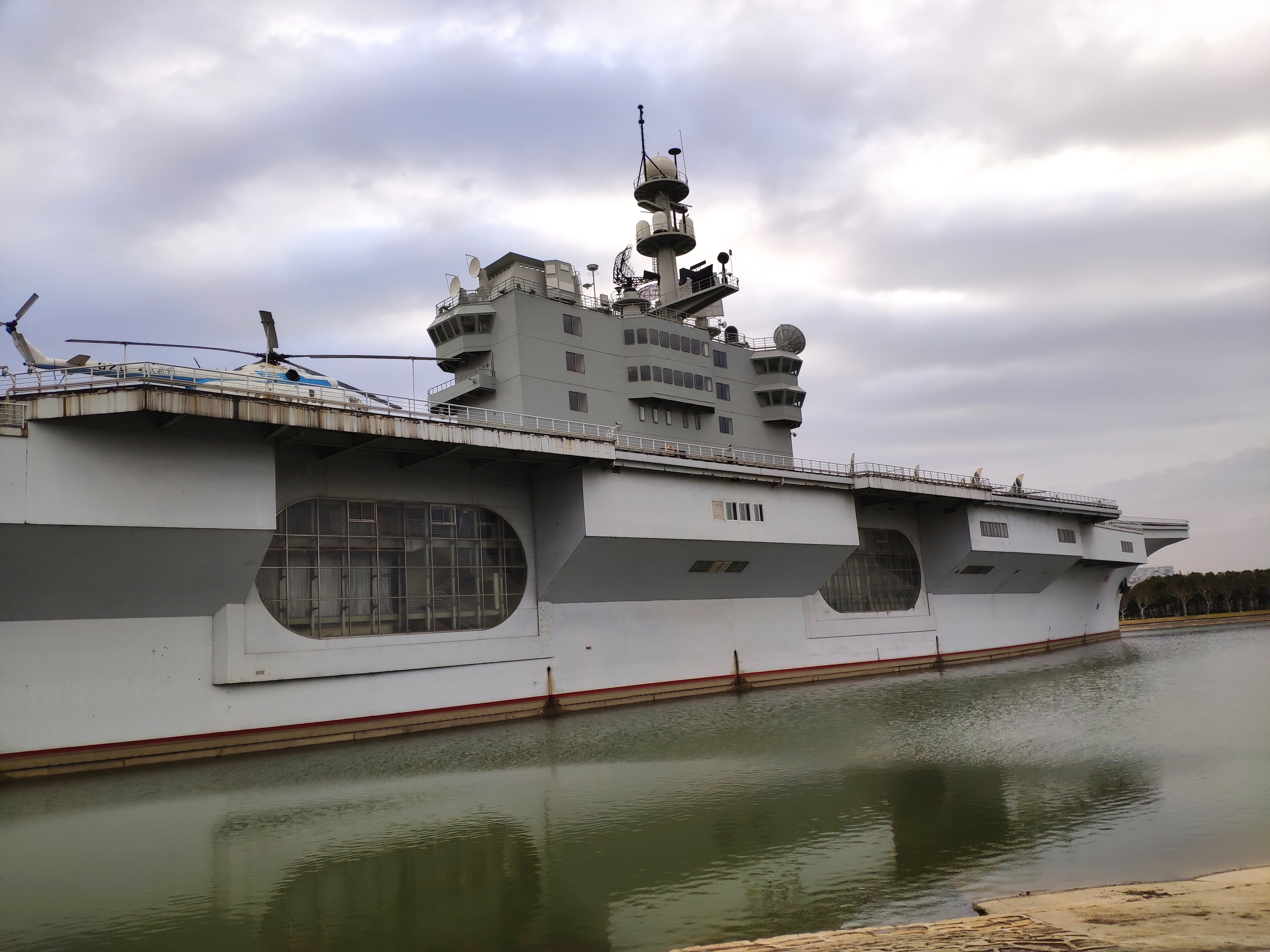 An aircraft carrier model inside Shanghai Oriental land, China.